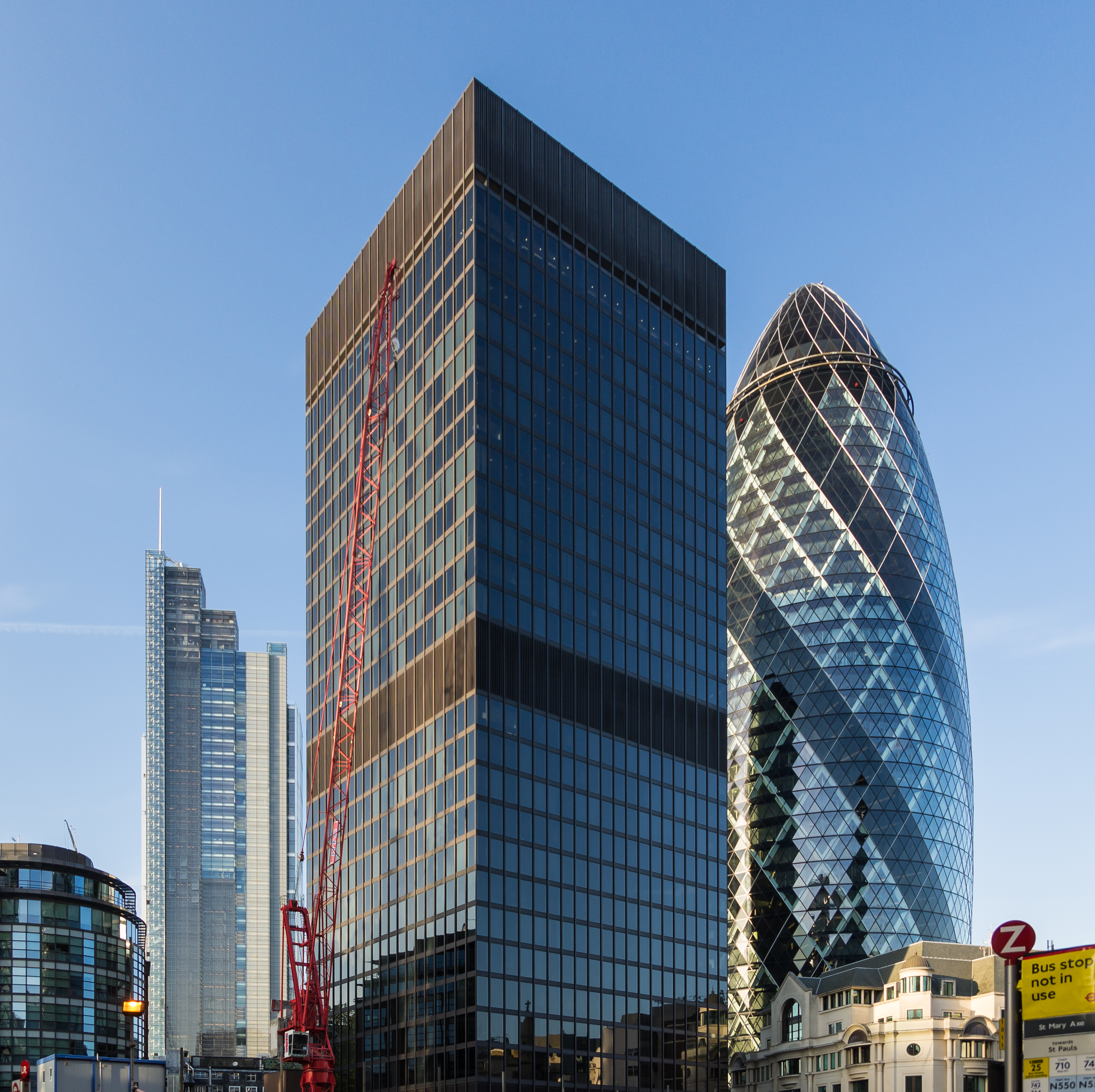 St. Helen's on St. Mary Axe from Leadenhall Street. To the left is Heron Tower and to the right is 30 St Mary Axe (the Gherkin).